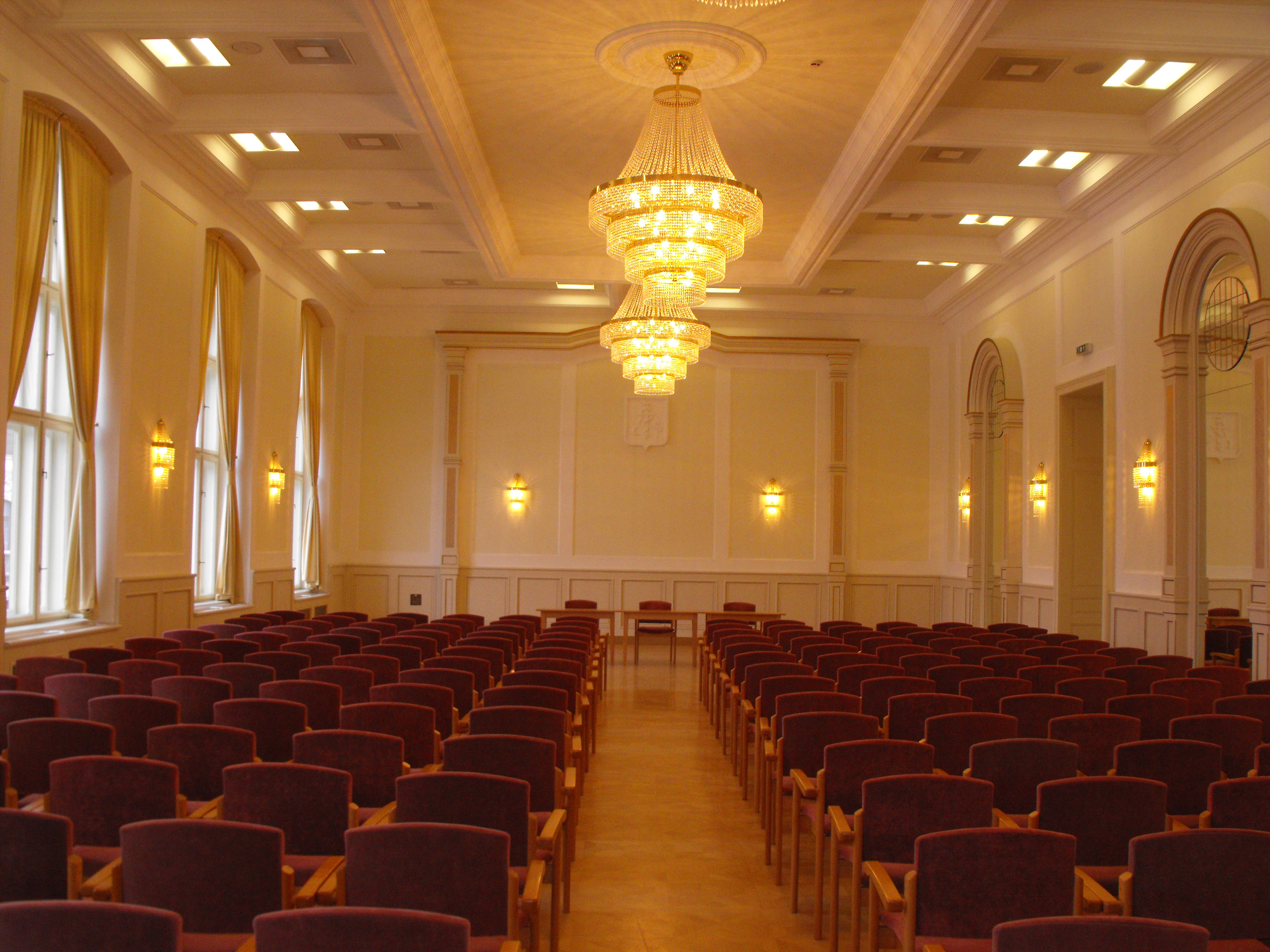 The interior of the Hotel Korona, Makó, Hungary.